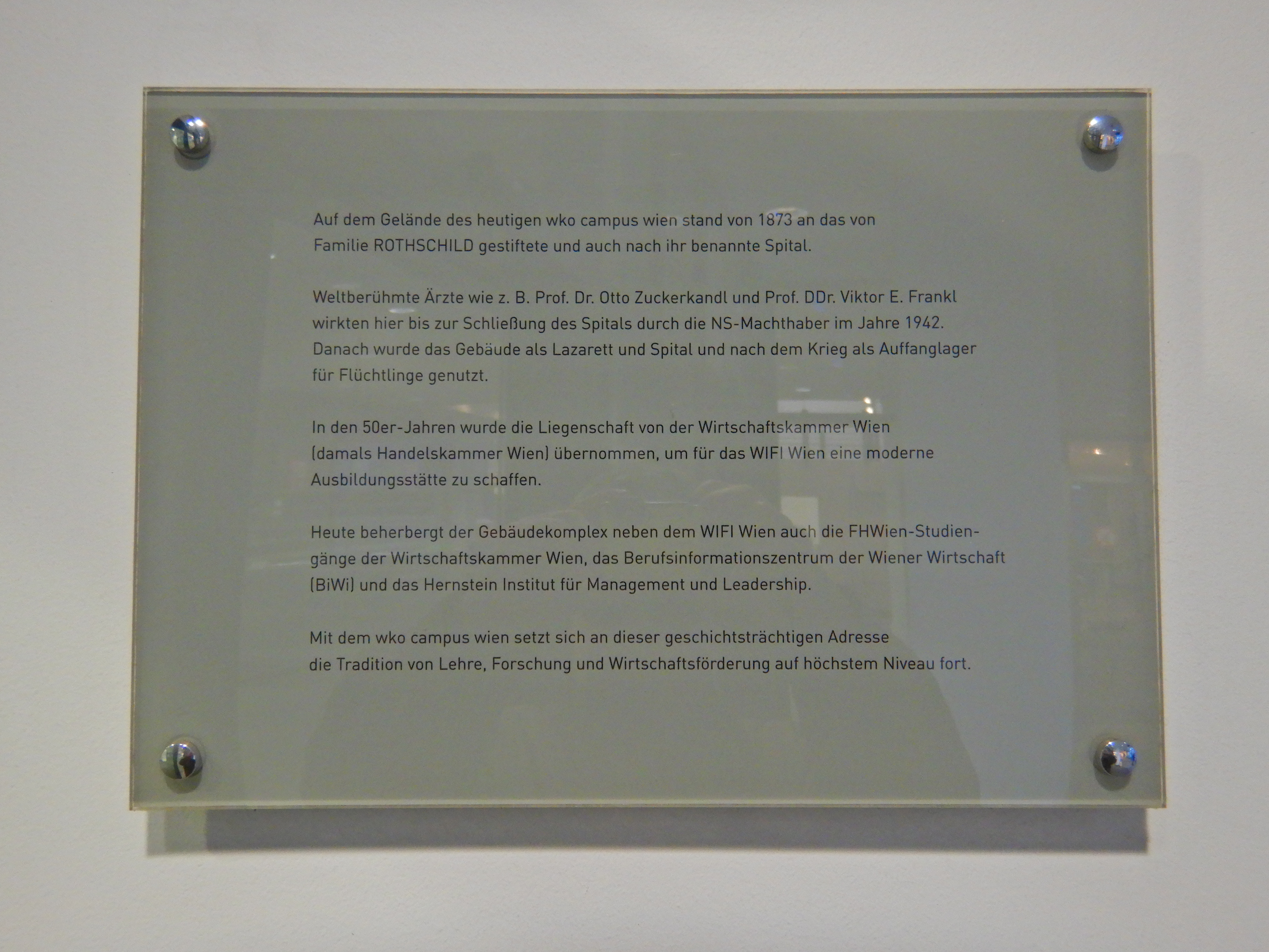 Memorial plaque for the Rothschild-Spital in Vienna